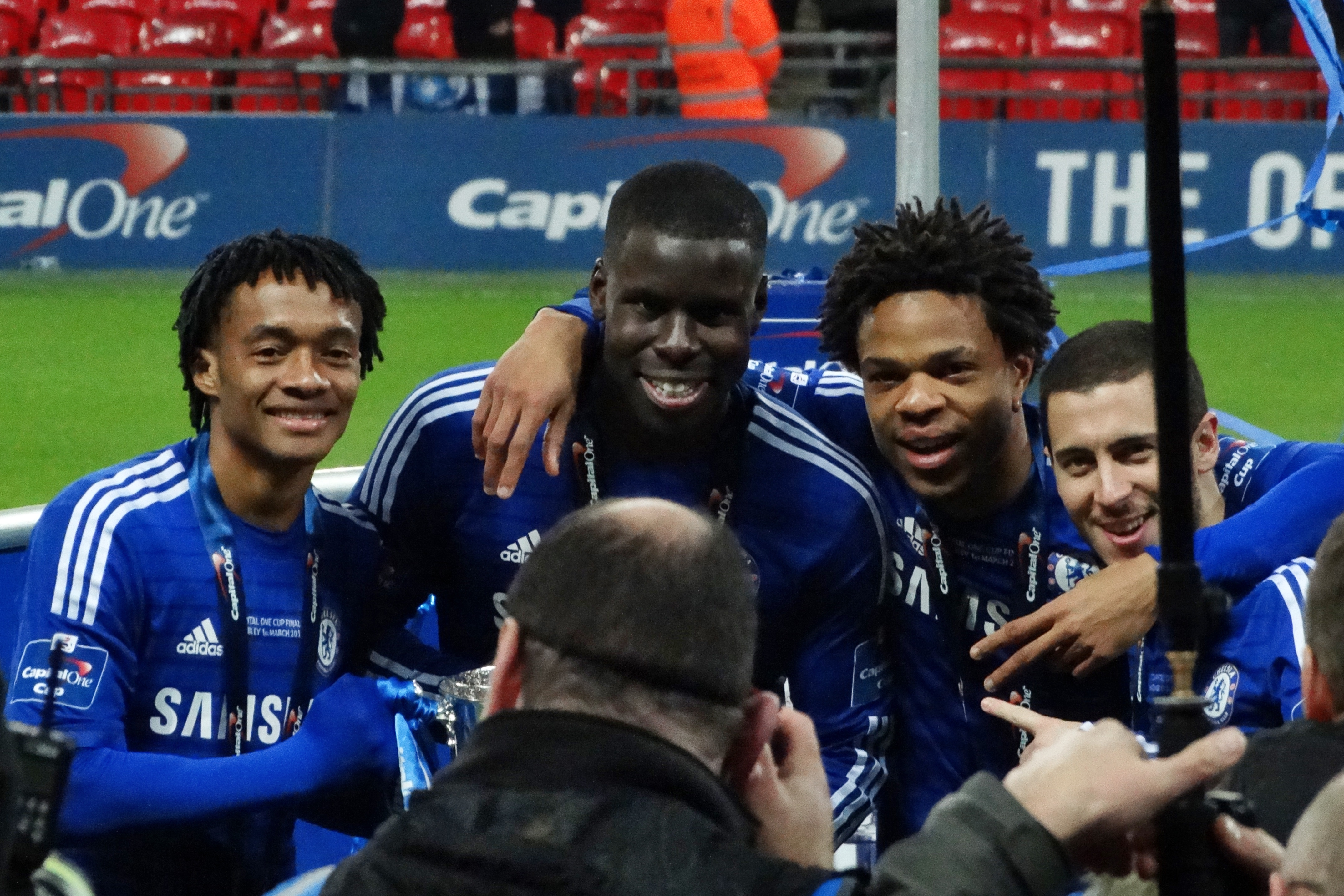 Chelsea 2 Spurs 0 Capital One Cup winners 2015